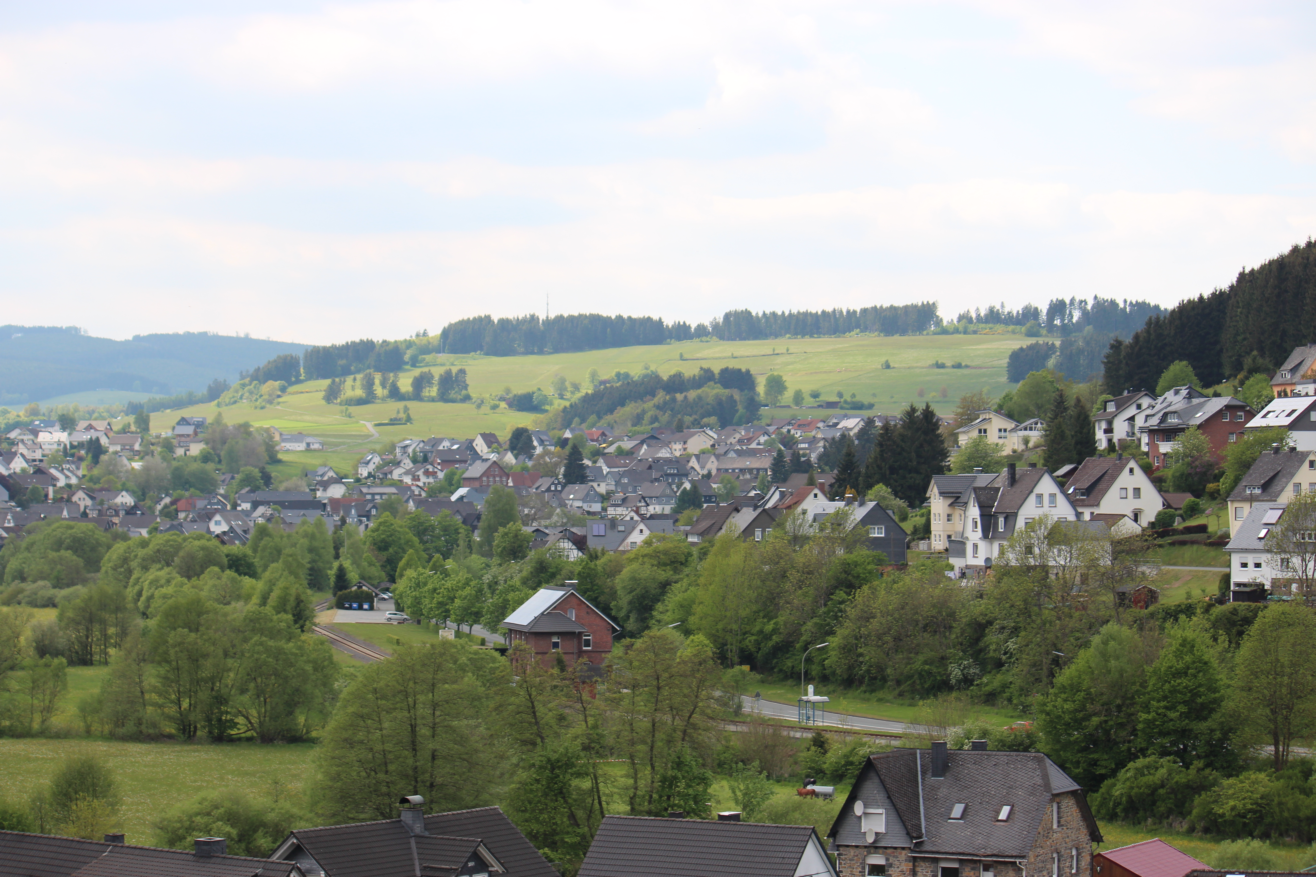 View on Feudingen, NRW, Germany.